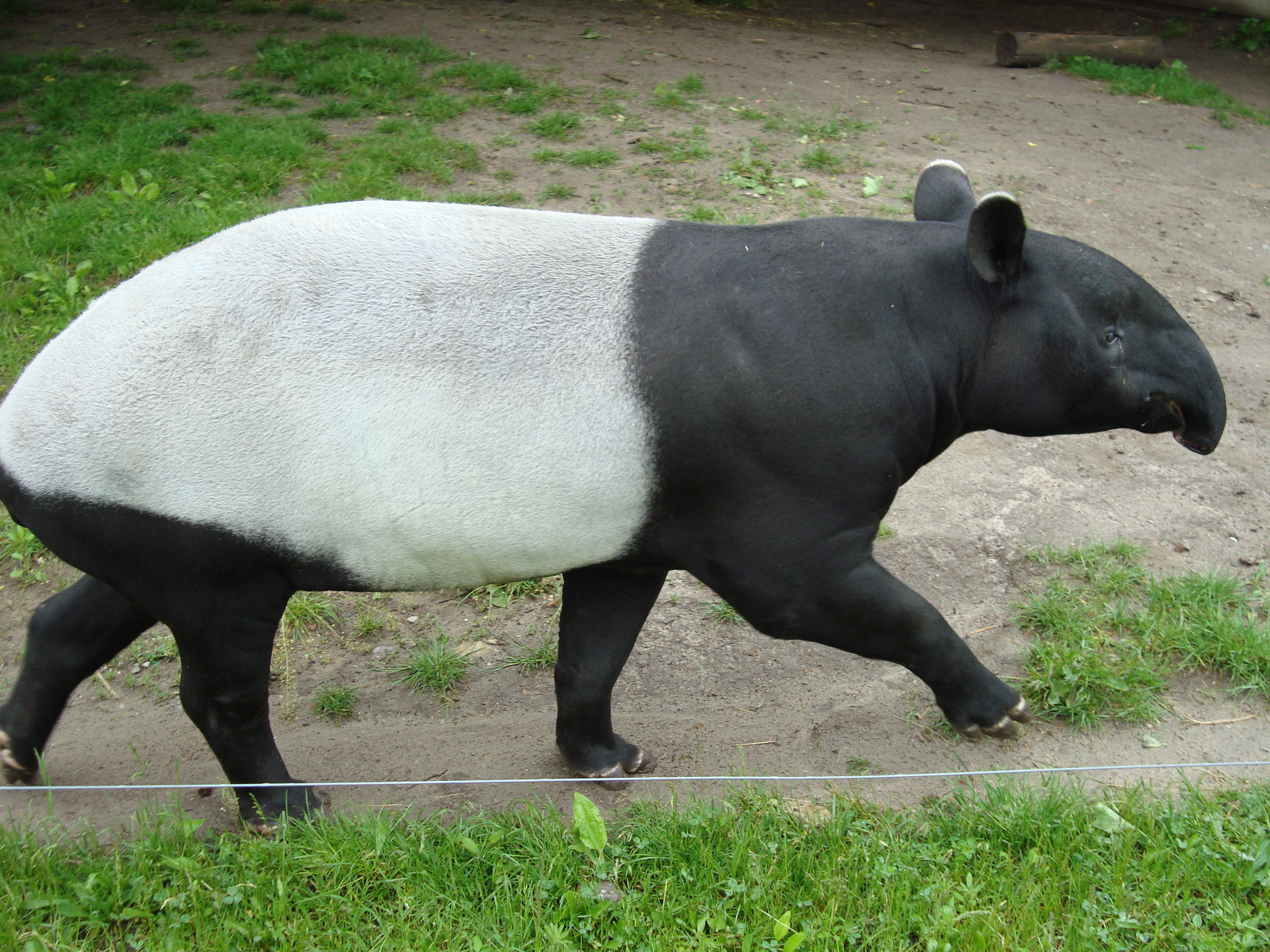 A Malayan tapir (tapirus indicus) in the Toronto Zoo.